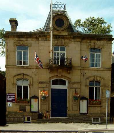 Whaley Bridge Mechanic's Institute. Taken Summer 2004. I retouch it to remove a car and a skip parked in front, so its a bit fuzzy at the bottom. The Mechanic's Institute even has its own web page The Mechanics' Institute, which serves as town hall, function room and library